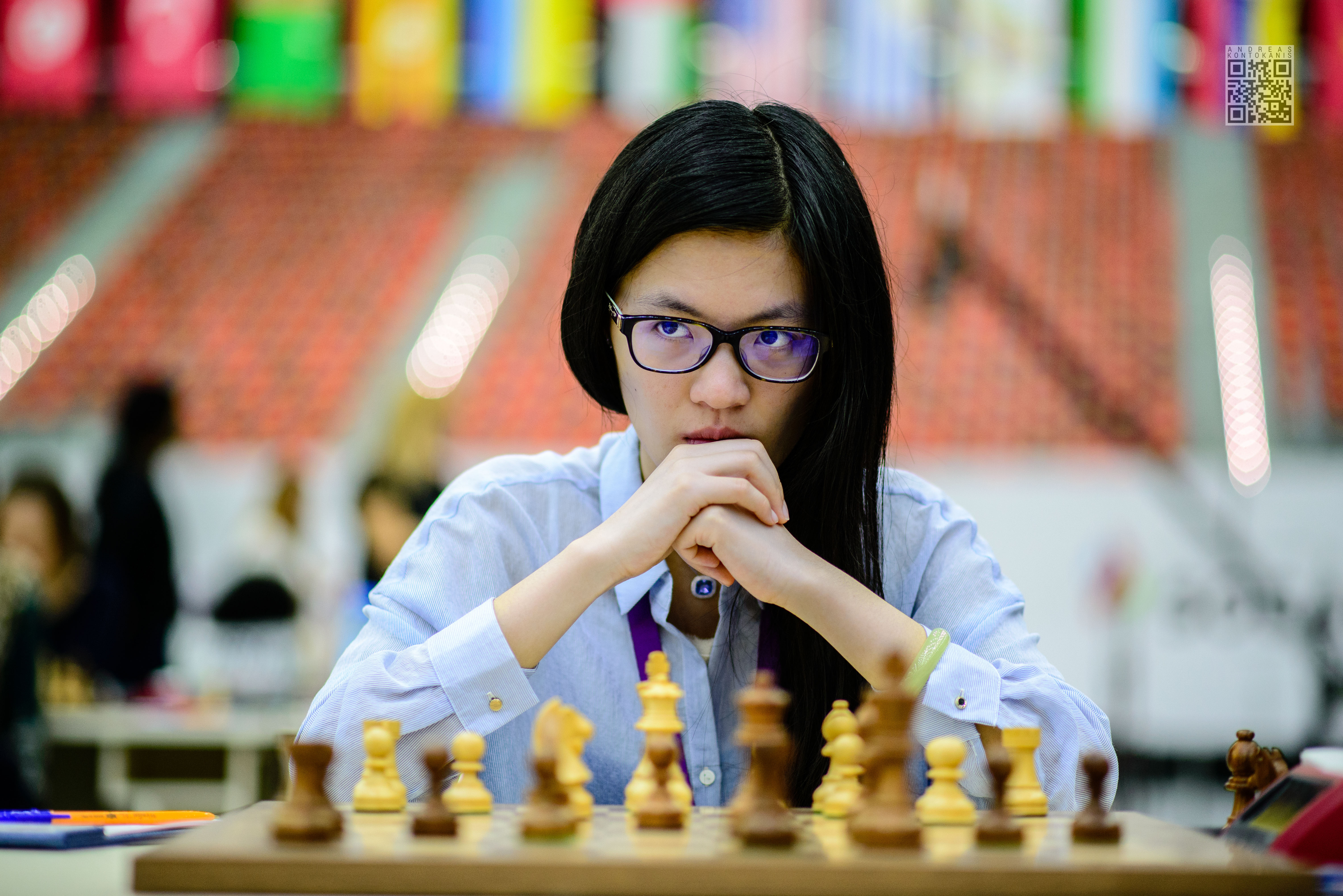 Hou Yifan